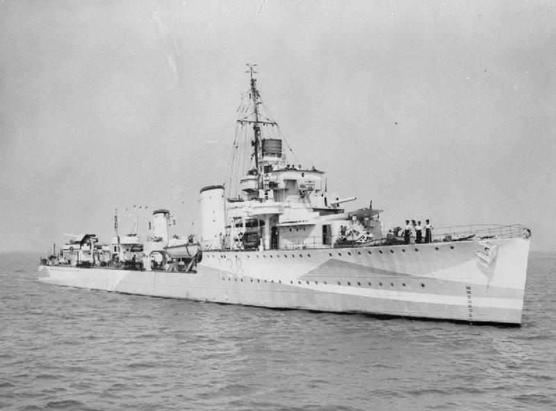 British destroyer HMS AMBUSCADE (D38) (actually I38) underway at coastal waters.